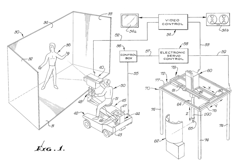 Drawing from patent 3,902,798 (Magicam). Showing the Magicam blue screen process using servo controlled cameras. Developed by Doug Trumbull.